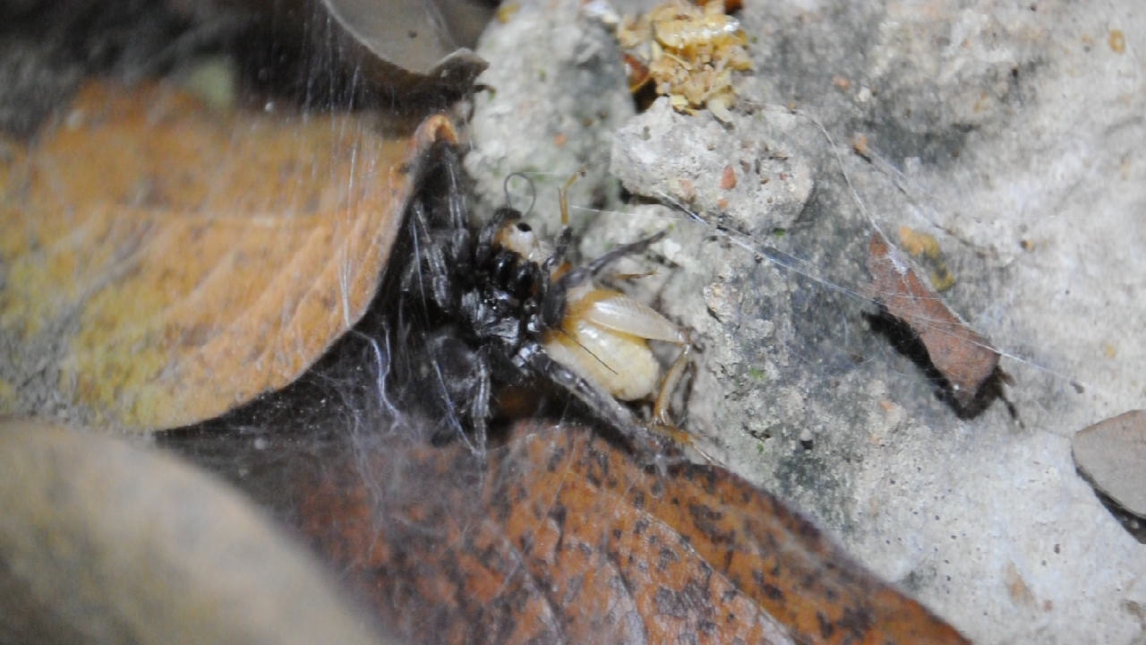 Ischnothele caudata Merida, Yucatan, Mexico One of my captive Ischnothele caudata hunting a cricket.